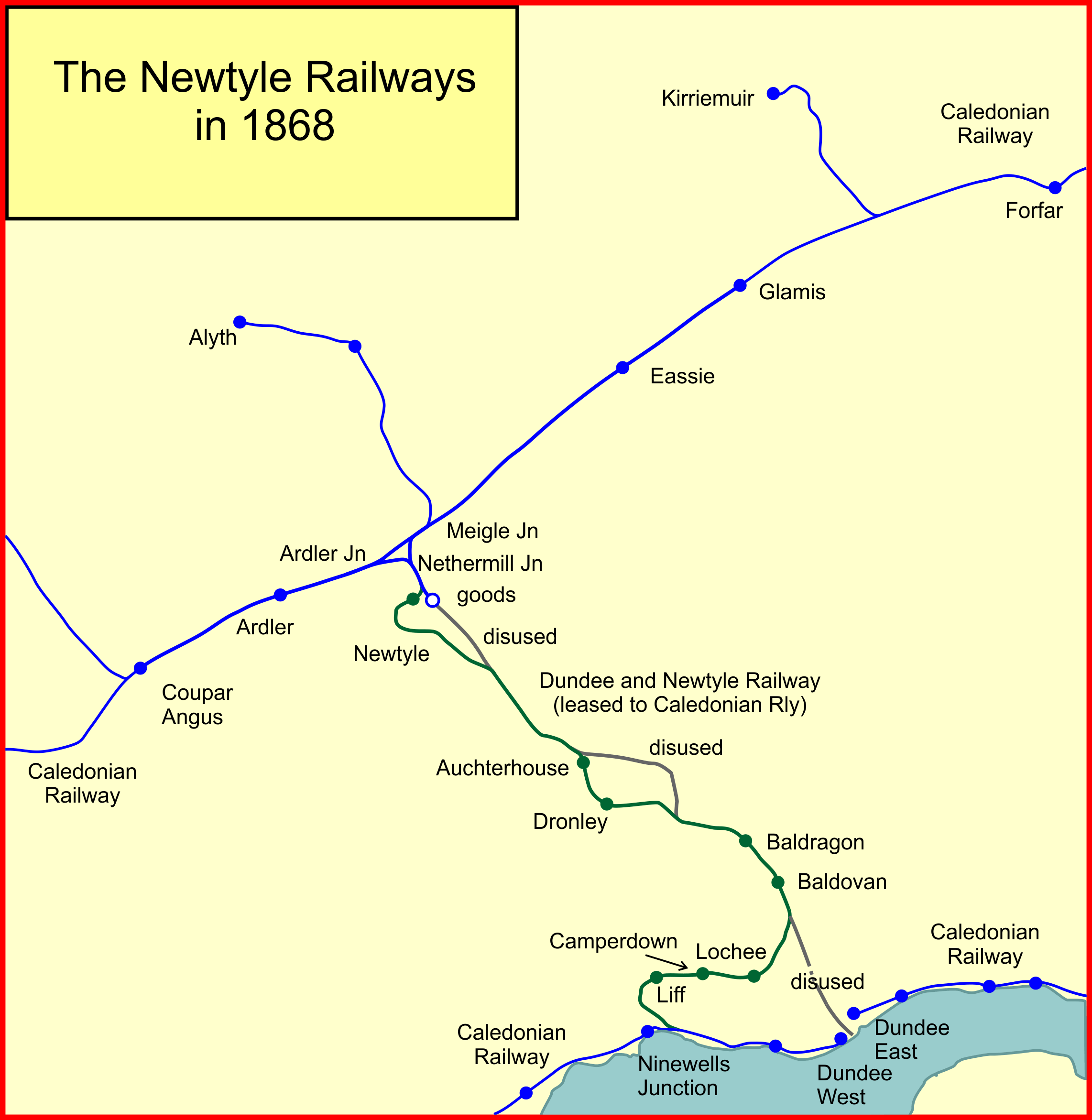 System map of Dundee and Newtyle Railway and associated lines in 1868